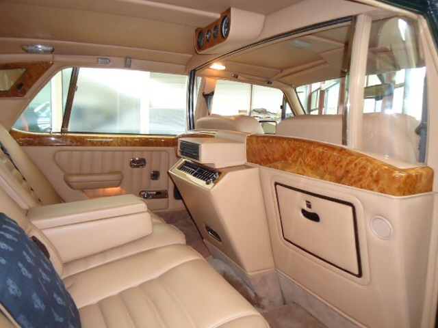 1993 Bentley Turbo R LWB limousine Mulliner interior showing division